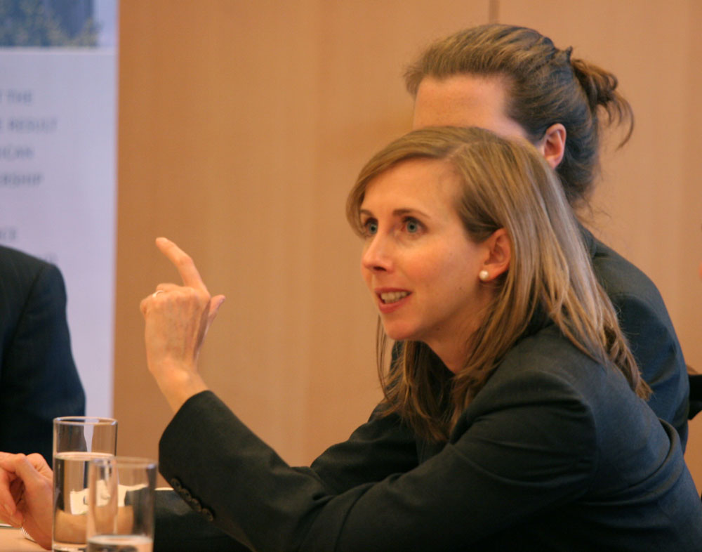 Heidi Cullen, climate expert, asks a question at a round-table in Geneva. Photo from the round-table for weather presenters with Dr John L. "Jack" Hayes, director of the National Weather Service (NOAA) and Dr Thomas R. Karl, director of the National Climatic Data Center. The event was organized in the context of the World Climate Conference 3 (WCC3).